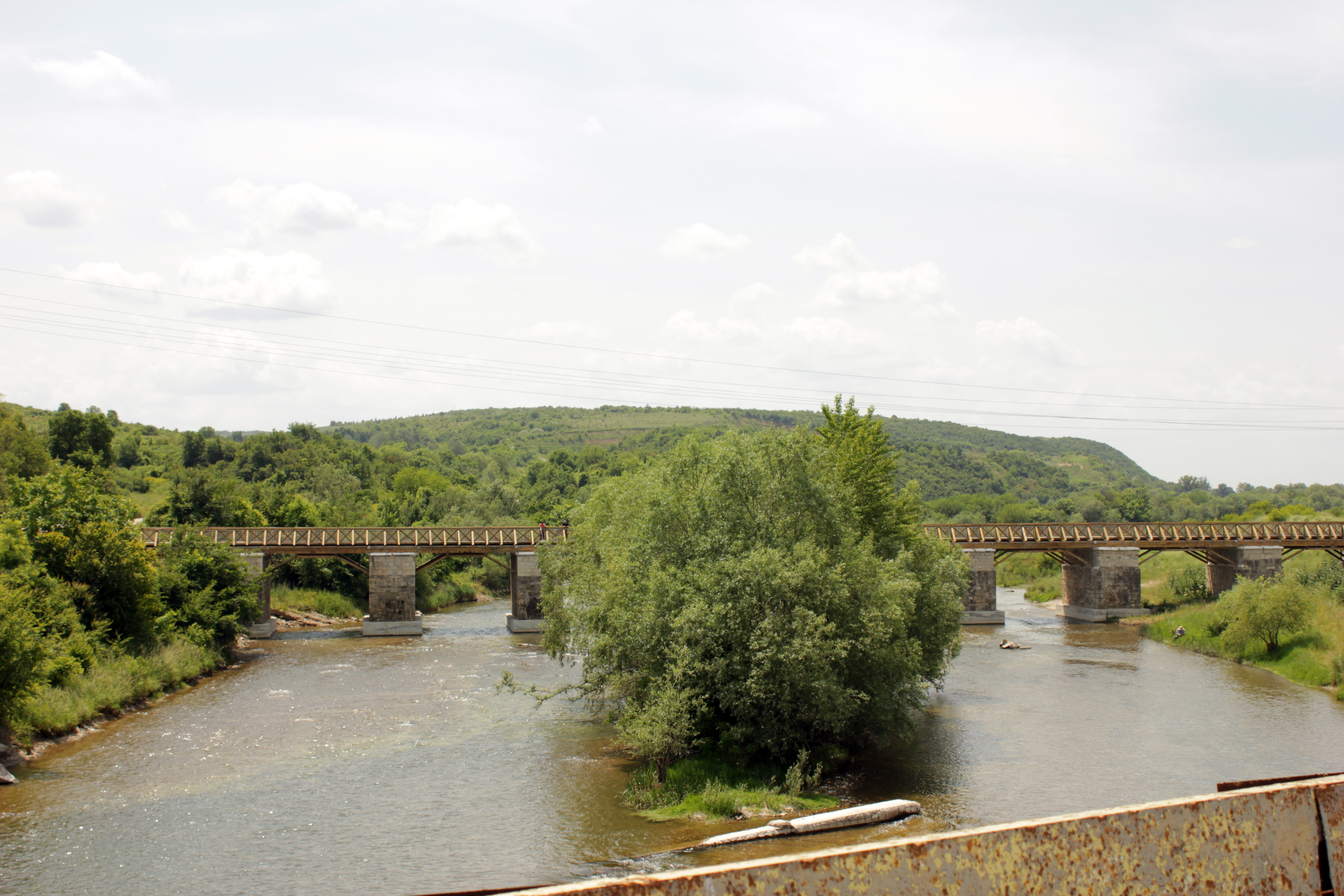 Renovation of Yasen Historical Bridge